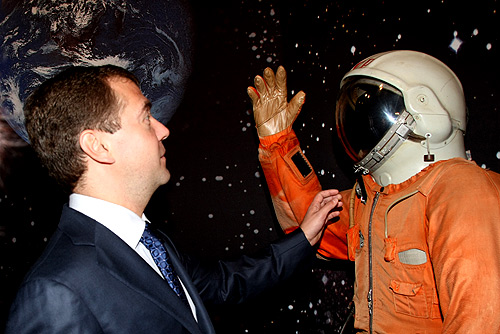 GAGARIN, SMOLENSK REGION. Visiting an exhibition in the Yuri Alexeyevich Gagarin Memorial Museum.